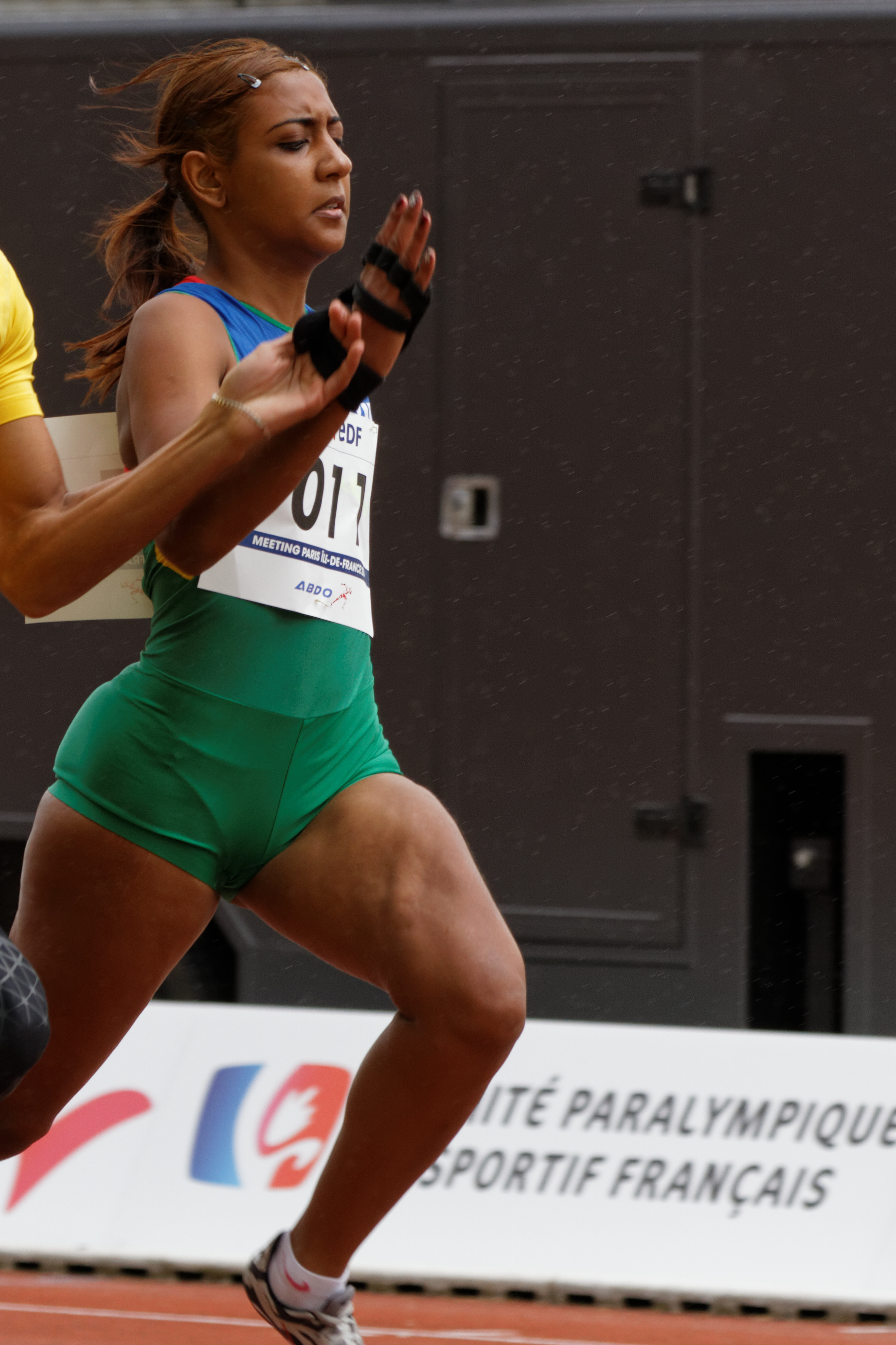 Paris Athletics Paralympic Meeting, June 4th, 2014, Charlety stadium.